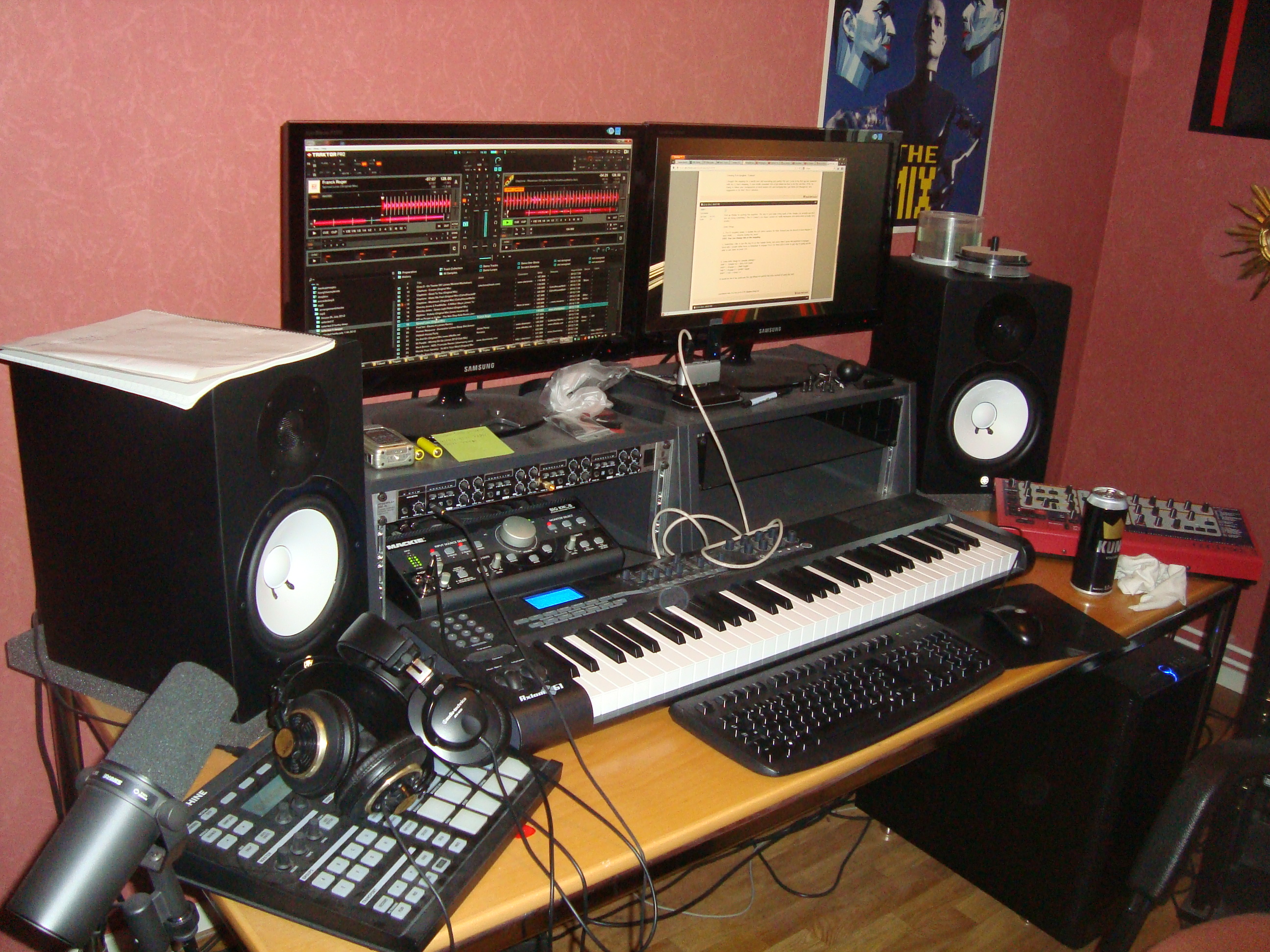 Friend's home studio (by David J)